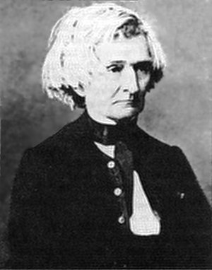 Hector Berlioz in 1868 - last photo before his death